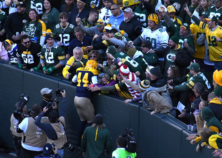 James Stark of the Green Bay Packers doing the "Lambeau Leap"